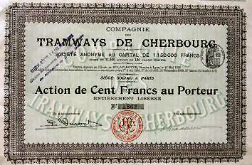 Share certificate for Tramways de Cherbourg